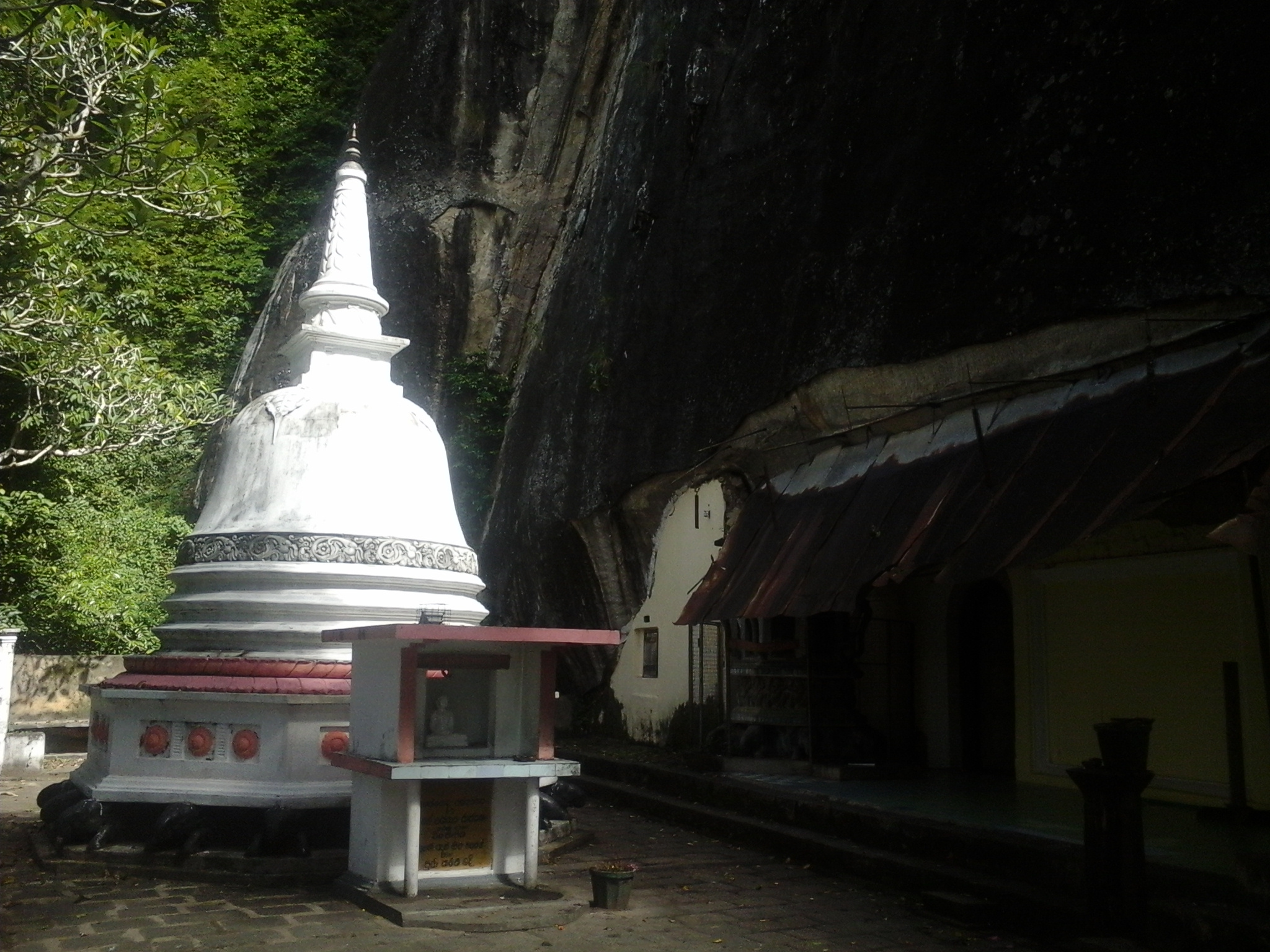 A pagoda at Mulkirigala temple